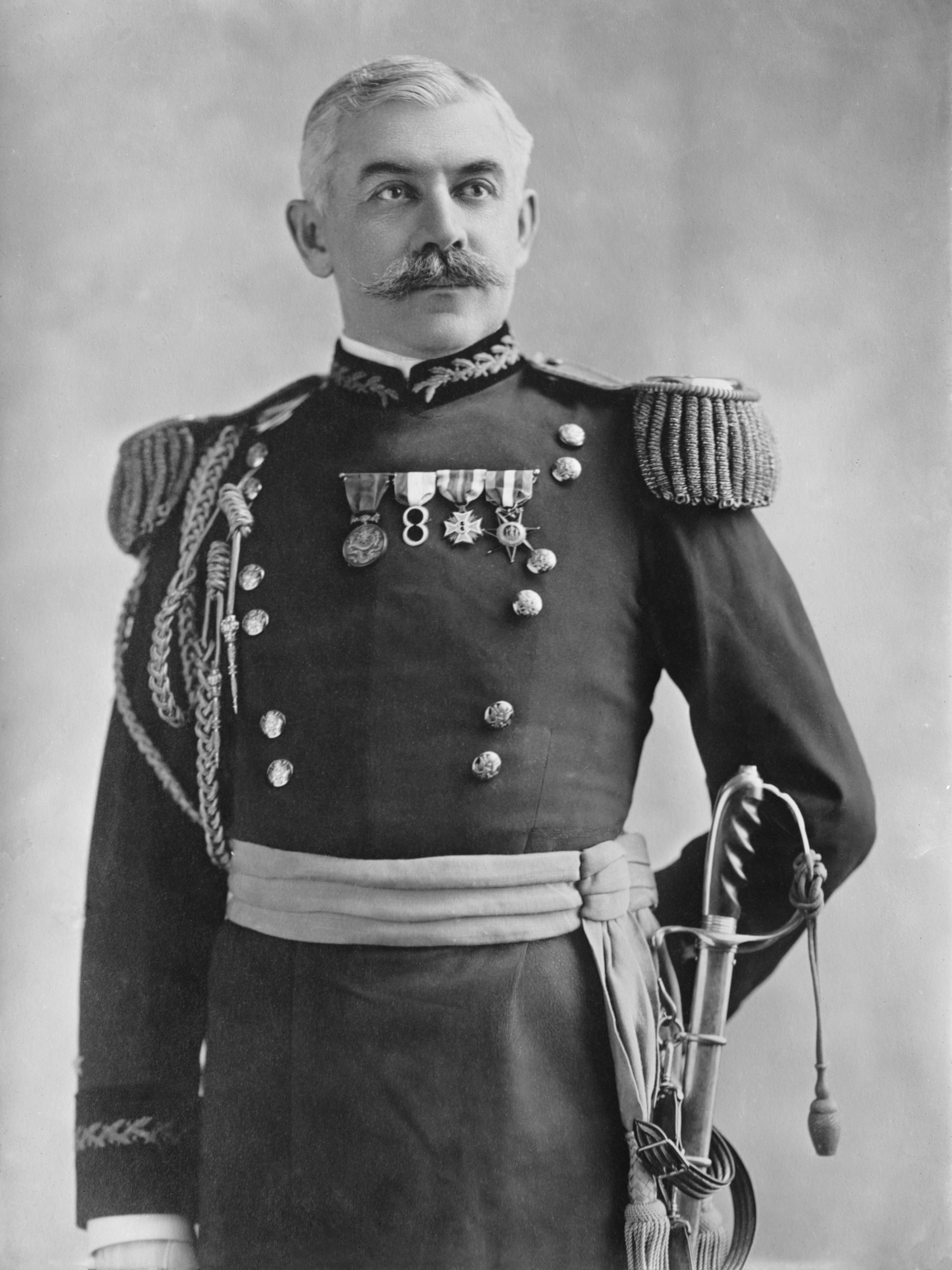 Major General Thomas Henry Barry in uniform